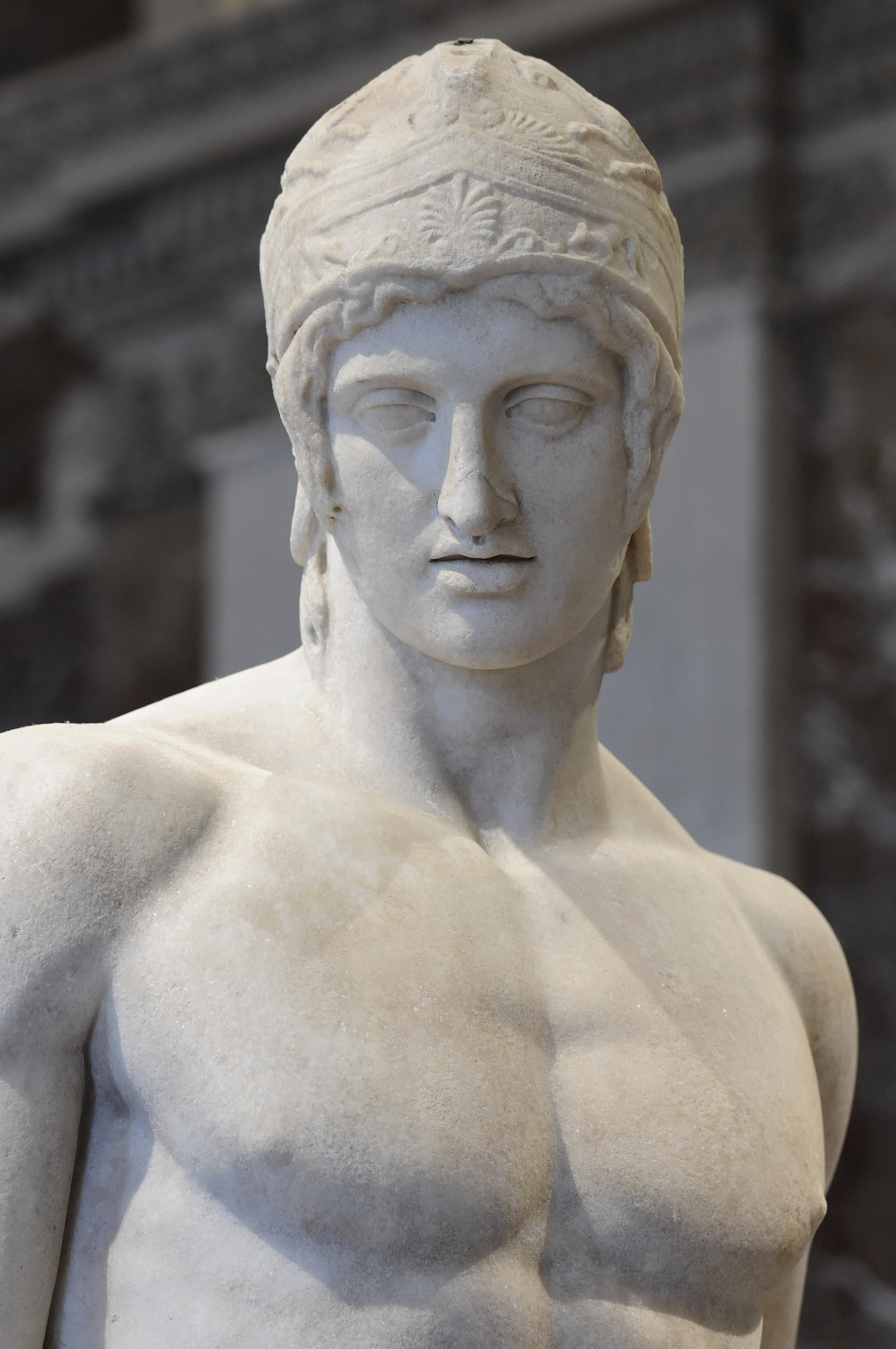 Naked, helmeted warrior holding a spear and wearing a bracelet at the right ankle, probably a representation of Ares. Free-standing statue, Roman Imperial period. From the agora in Athens.